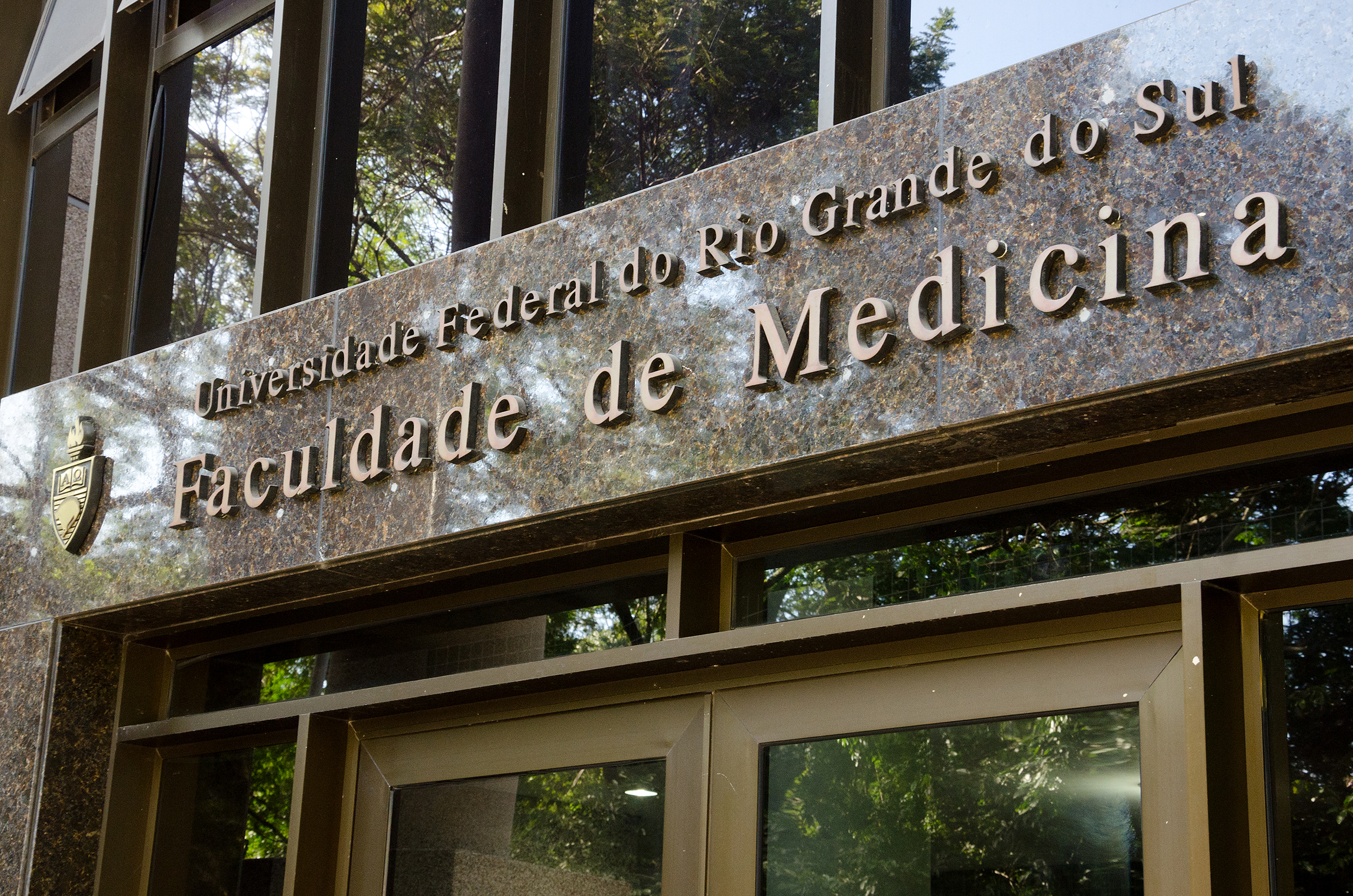 FAMED